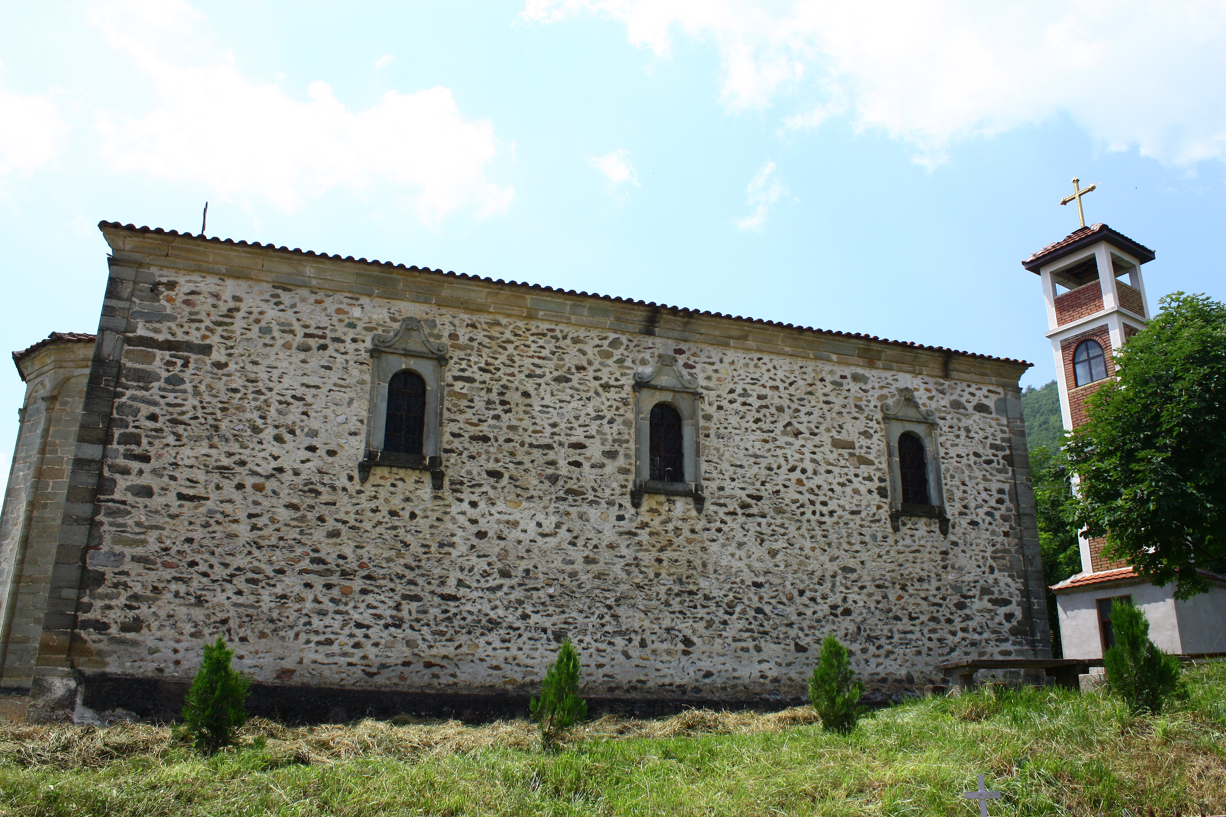 Holy Mother of God. The main Catedral and cental parish Church in Makedonski Brod, Macedonia